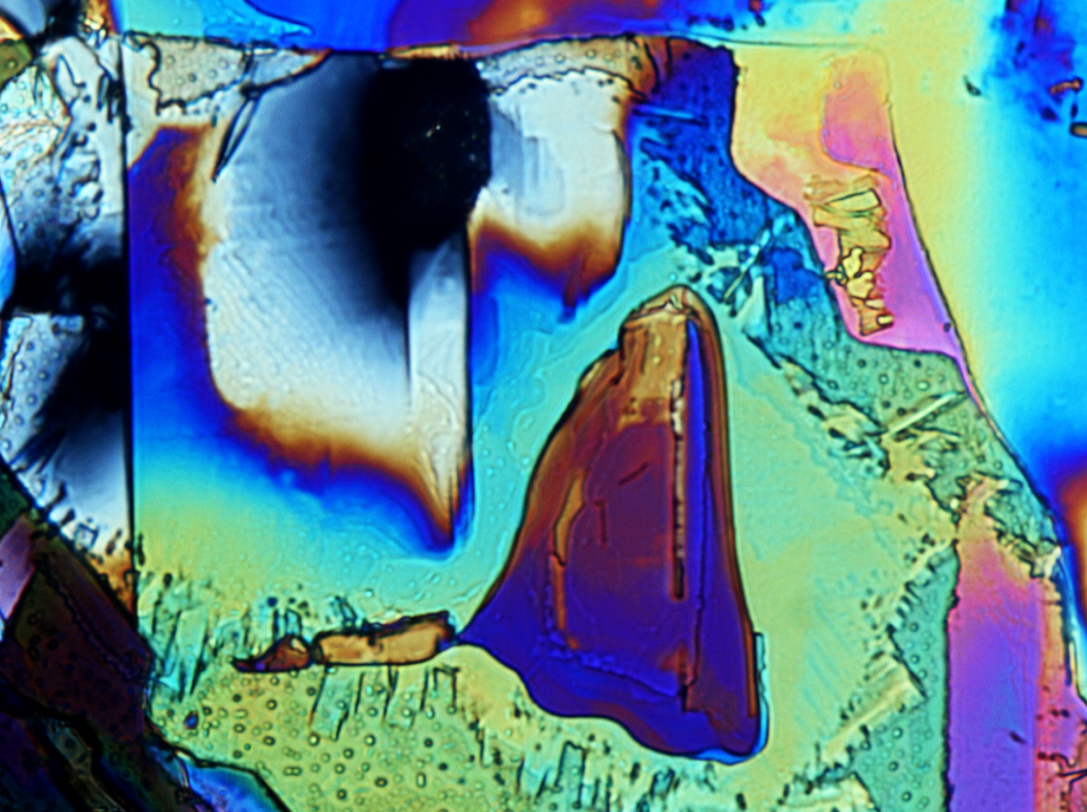 Crystals of vitamin B6 in the polarizing microscope (1650x magnification in A3)